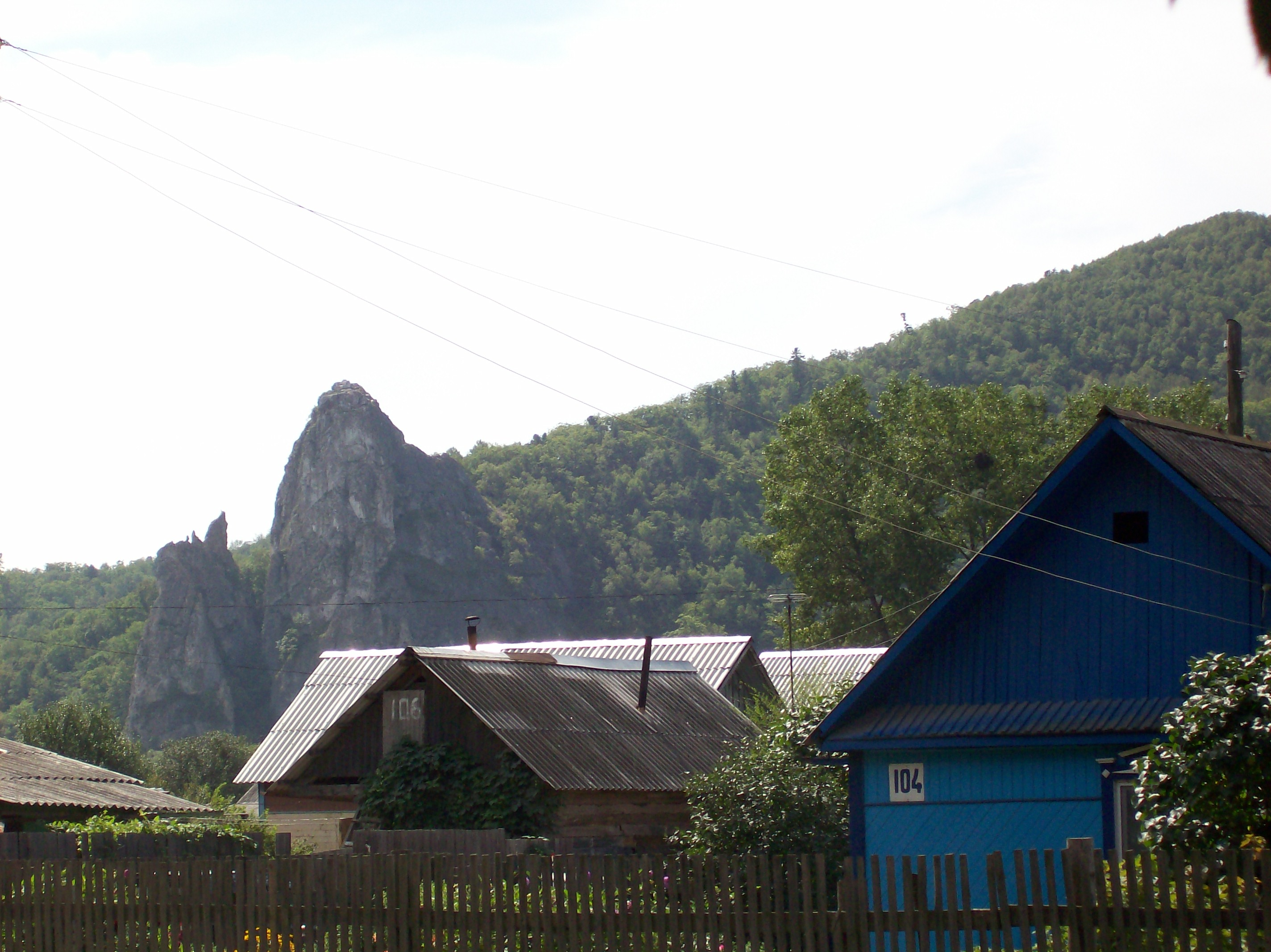 Kavalerovo, Primorsky Krai